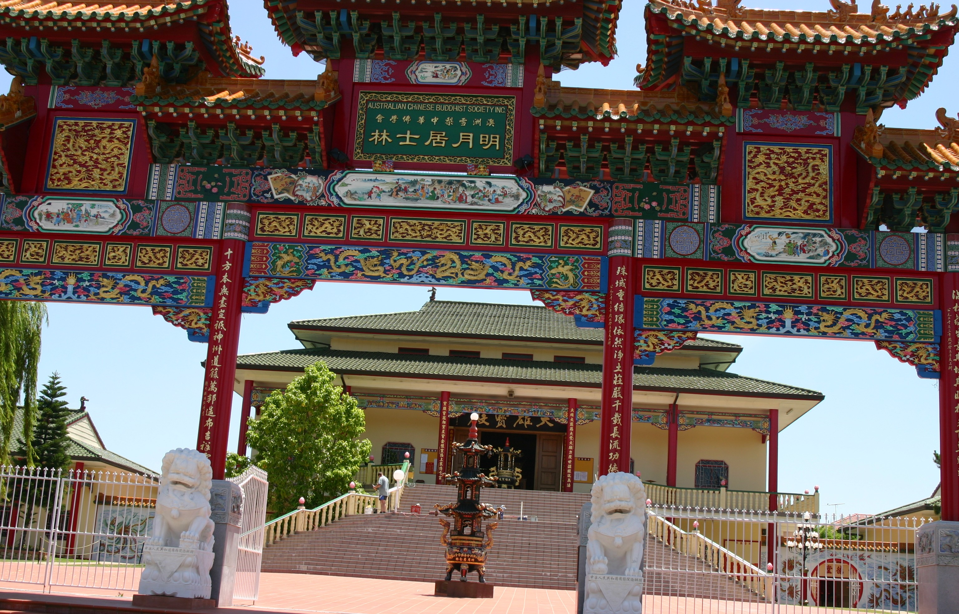 Photograph taken by Alex Wolfson, 12 December 2005, Canon 300D